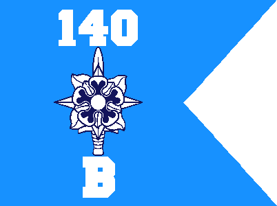 guidon of Company B, 140th Military Intelligence Battalion (United States)